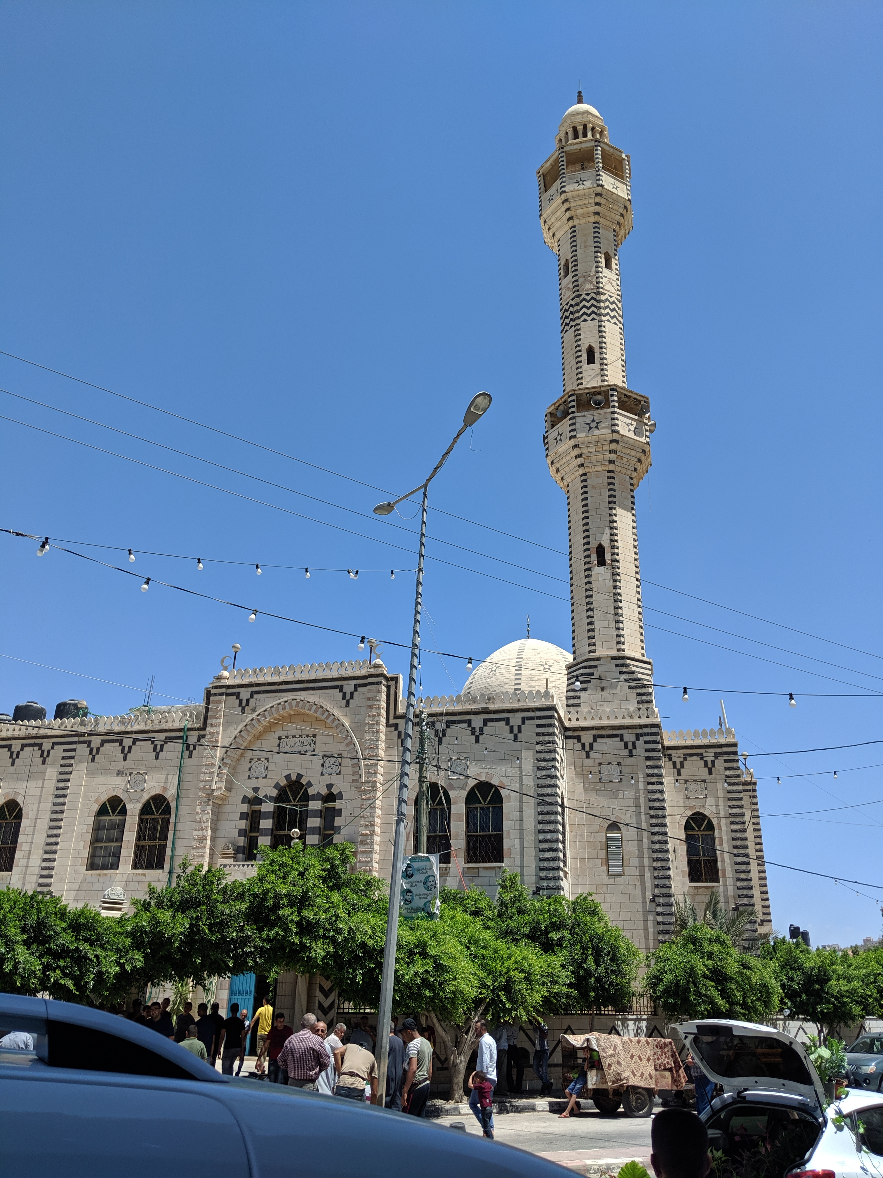 Recent Photo of Salah Al Din mosque (2019)